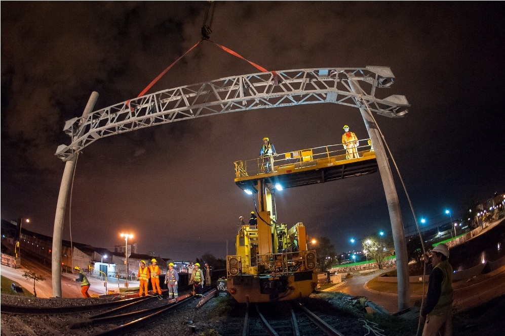 Railway workers electrifying parts of the Roca Line in Greater Buenos Aires.